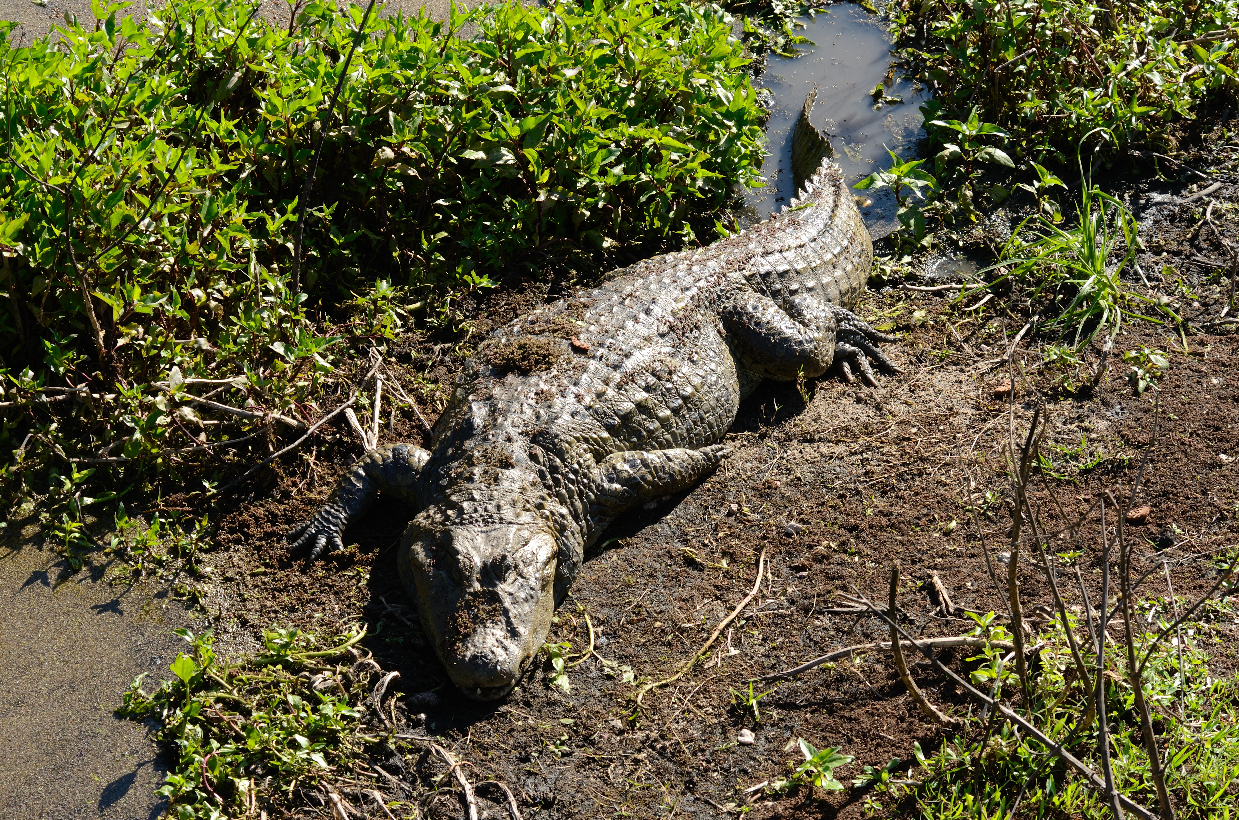 Caiman latirostris, in Uruguay, Flores.